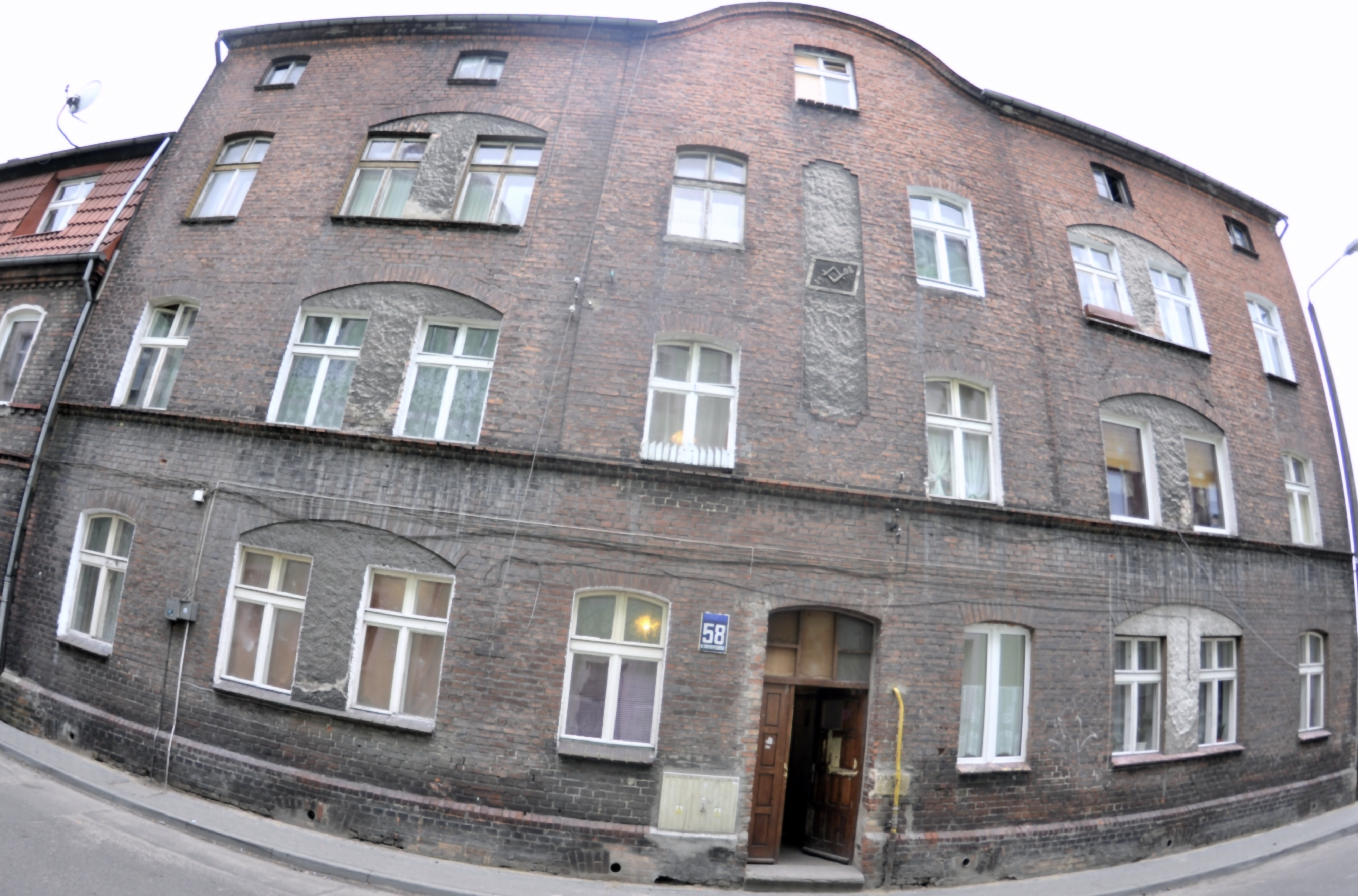 The building belonged to the former Masonic lodge - not yet entered into the register of monuments